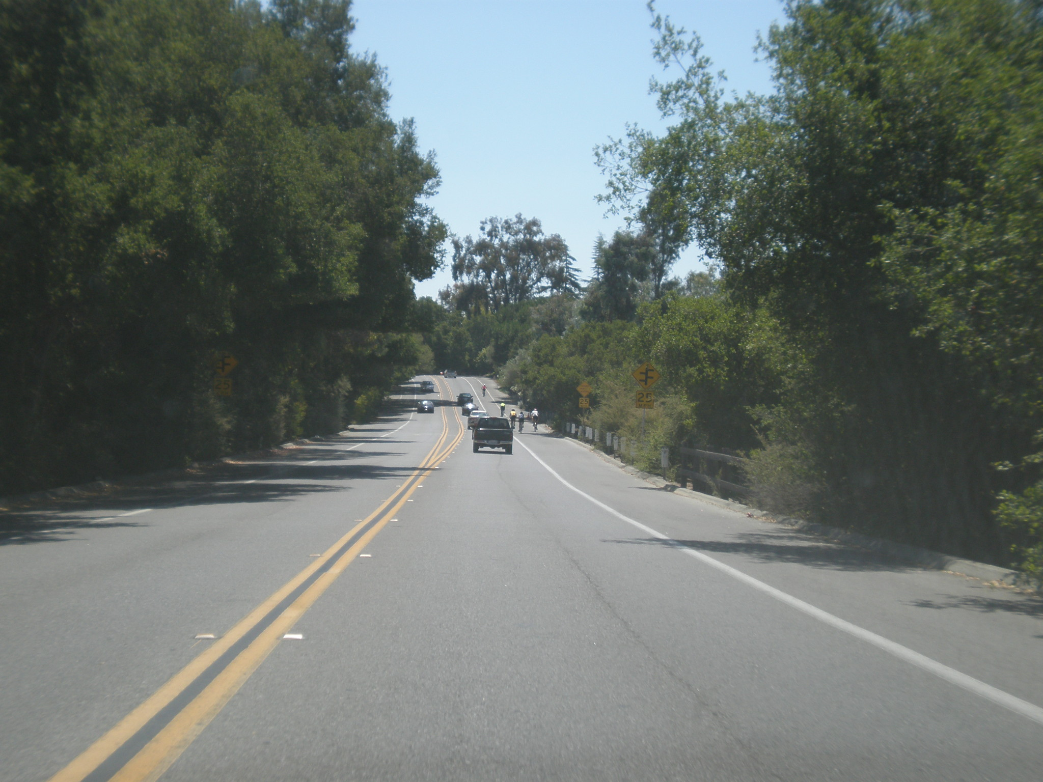 The section of Junipero Serra Boulevard in Palo Alto, California.